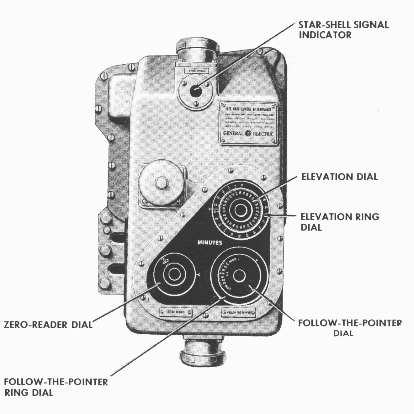 5"/38cal Elevation Indicator Regulator. Cropped portion of image scanned from source Originally uploaded to EN Wikipedia as File:5in38calElvIndReg.jpg by User:FTC Gerry 2 October 2007